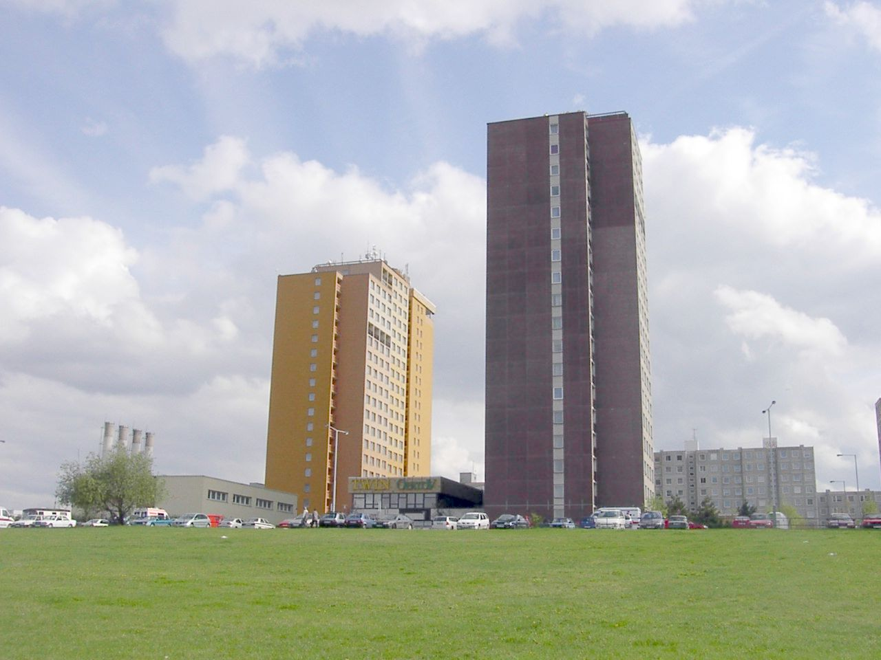 TWIN hotels Prague-Opatov, Czech Republic